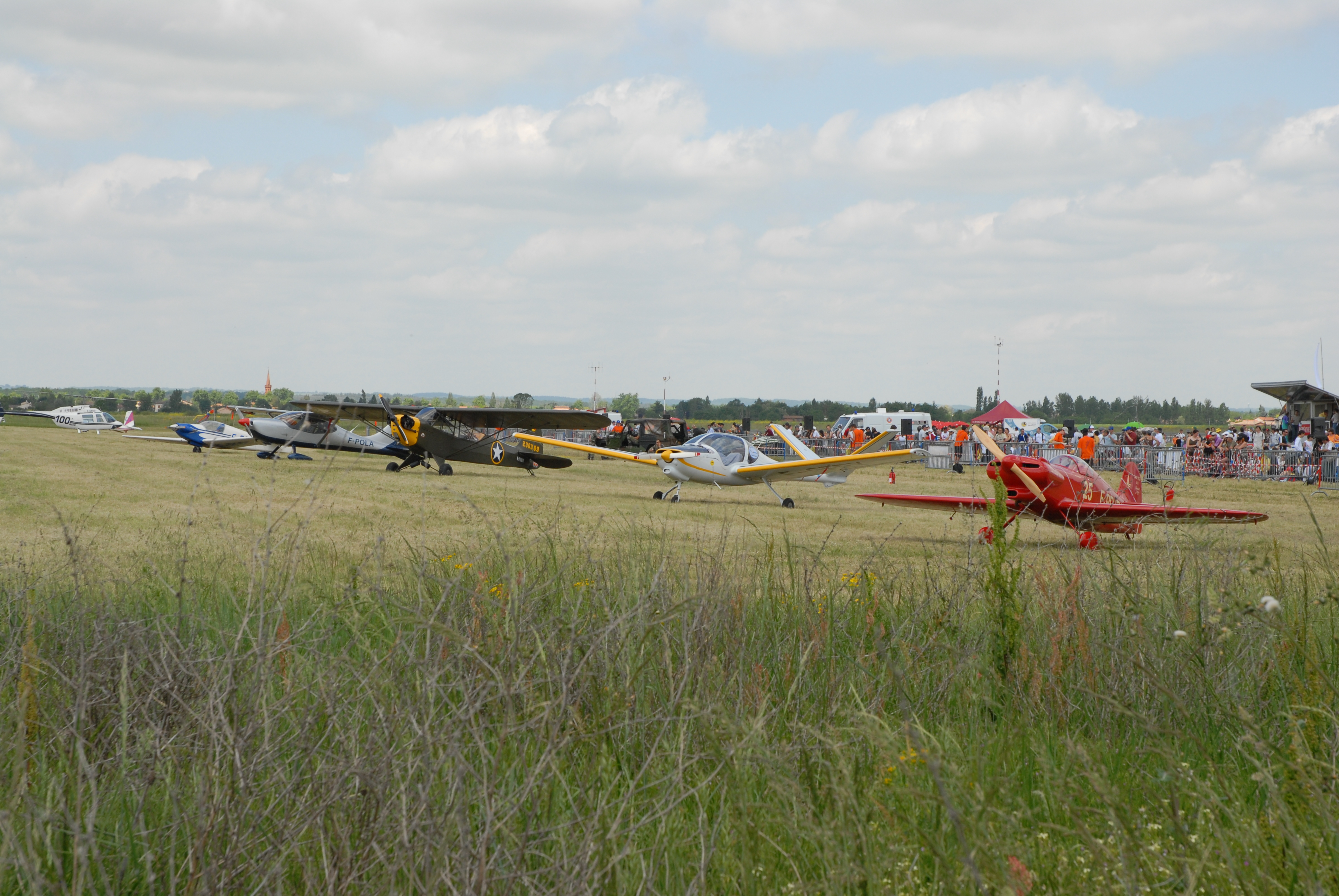 Several aircrafts at AirExpo 2007